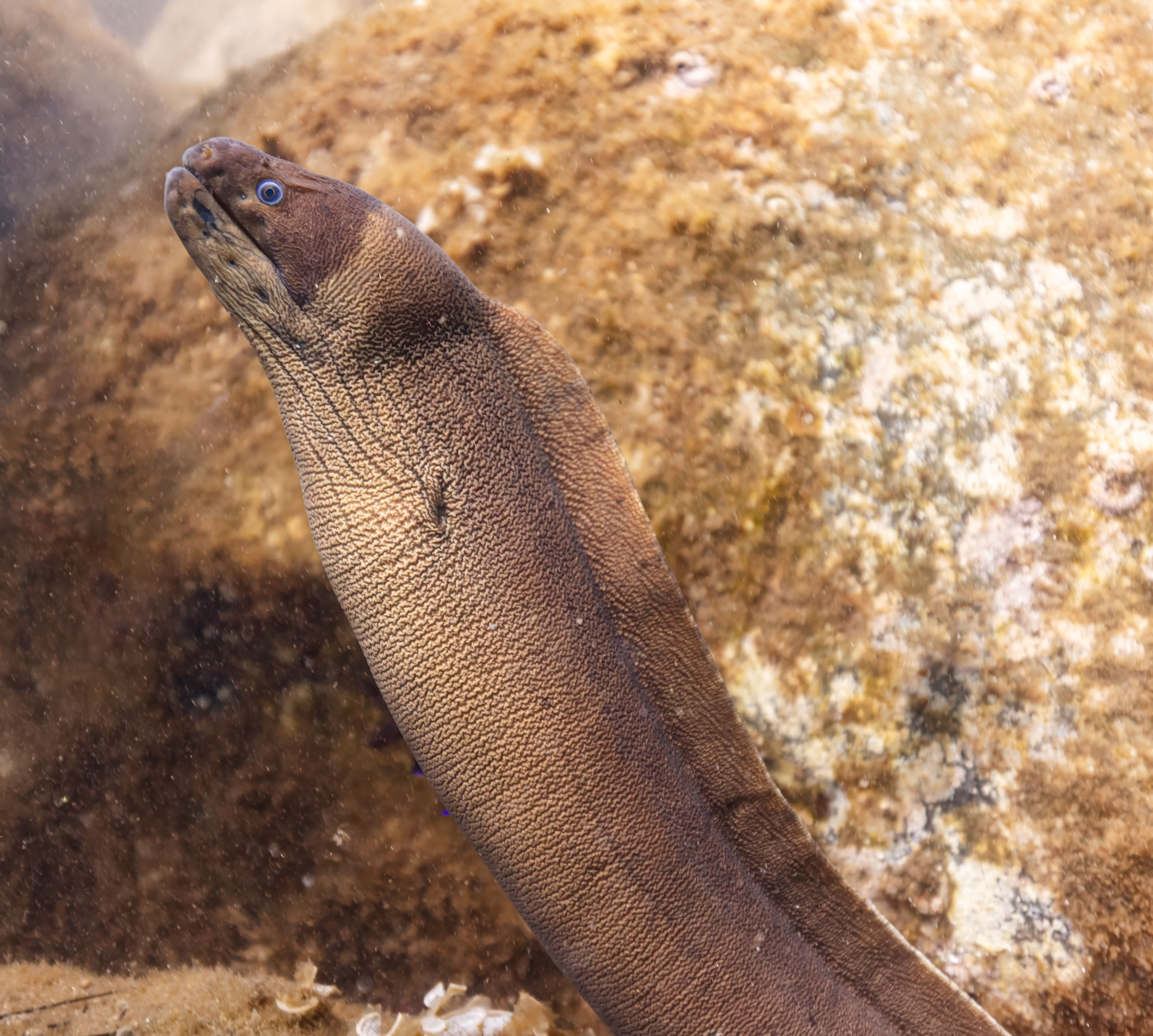 Brown moray eel (Gymnothorax unicolor), Madeira, Portugal